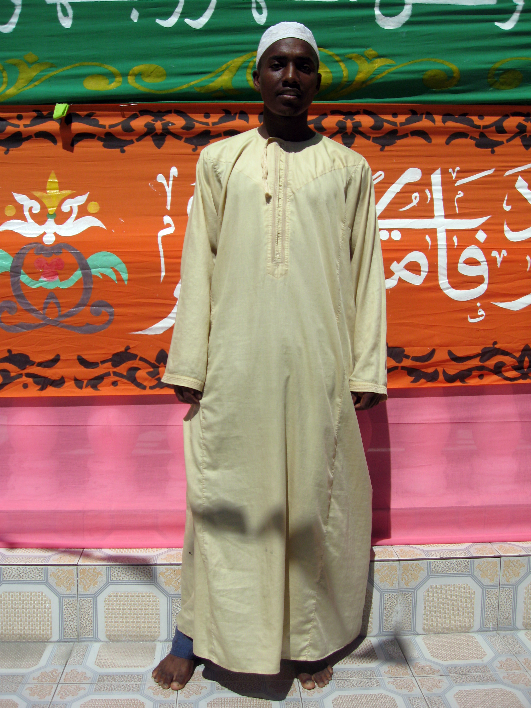 Man in Grande Comore